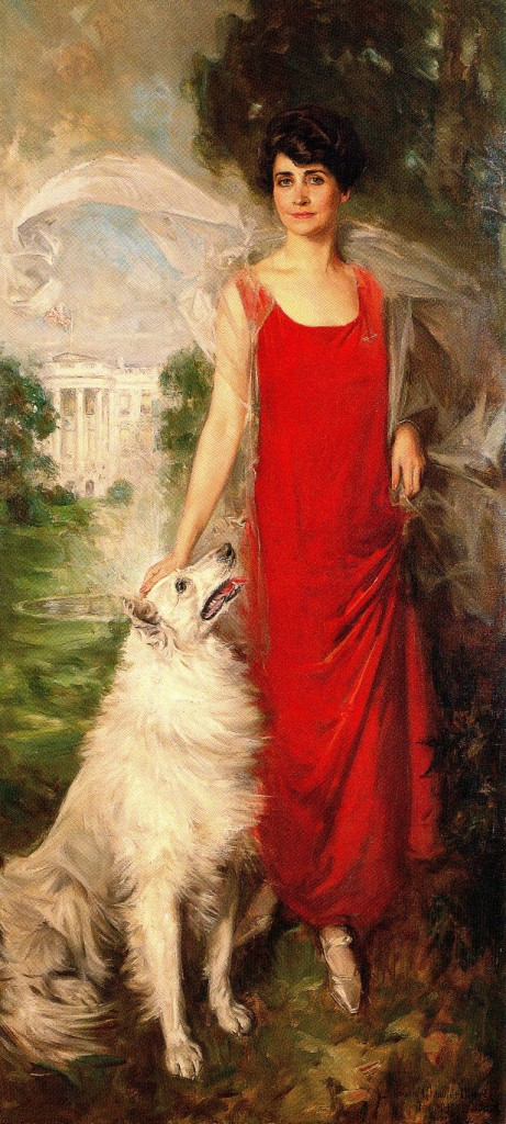 Official portrait of First Lady Grace Coolidge (1879-1957)